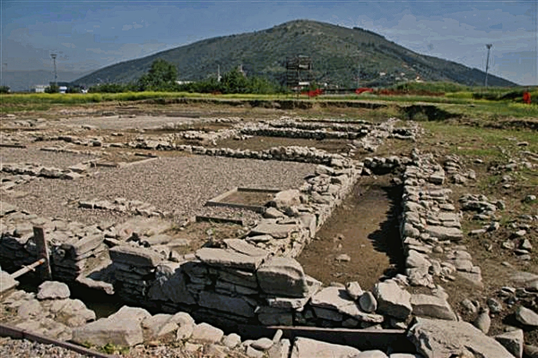 Camars(2011)